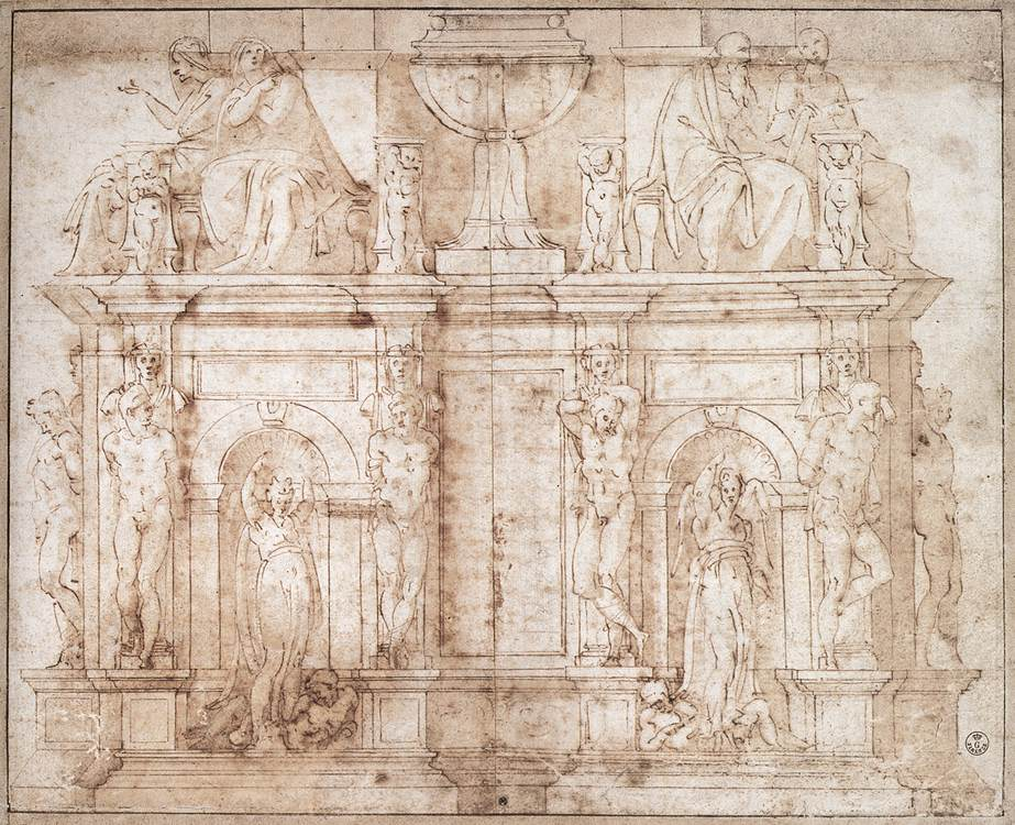 Michelangelo, 2nd design for Julius II tomb